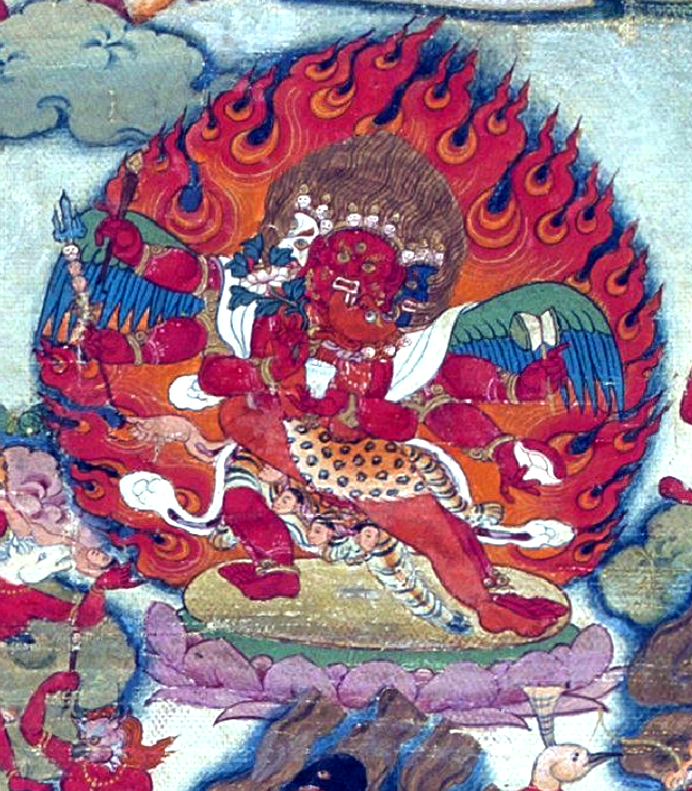 Padma Heruka, cropped from thangka